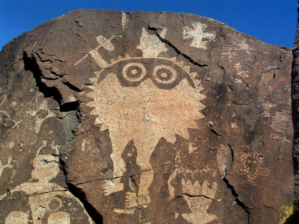 Petroglyph at Comanche Gap, depicting anthropomorphic figures; the top on with a rattle. These two figures are on a large volcanic dike on a private ranch in the Galisteo Basin. I went on one of the rare tours there in 2004. As you can see from this photo they occur close together, but they are high on the cliff and hard to get in one photo. Polly Schaafsma suggests they represent war among the peoples of the area.